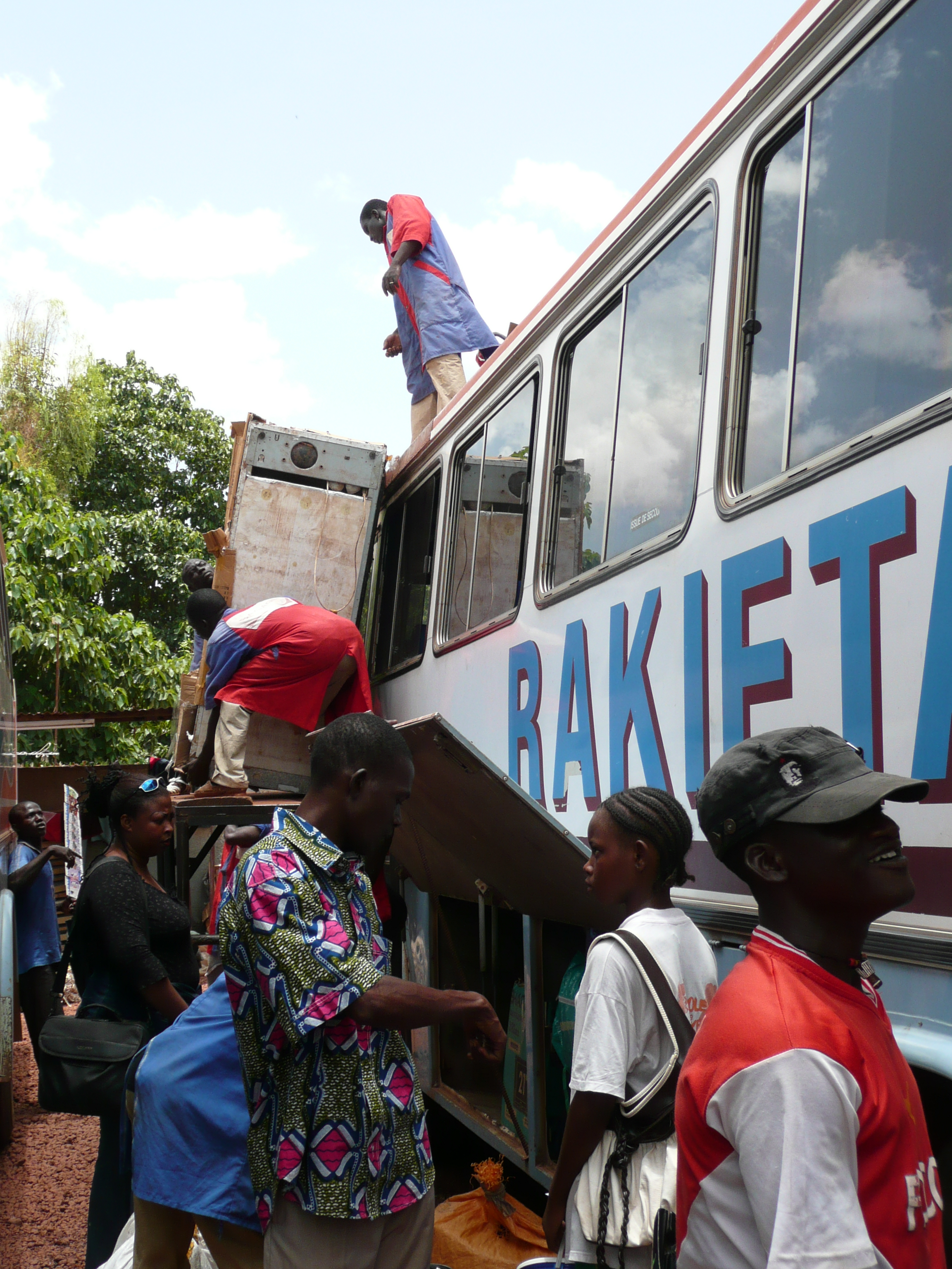 This is an image with the theme "Africa on the Move or Transport" from: Burkina Faso